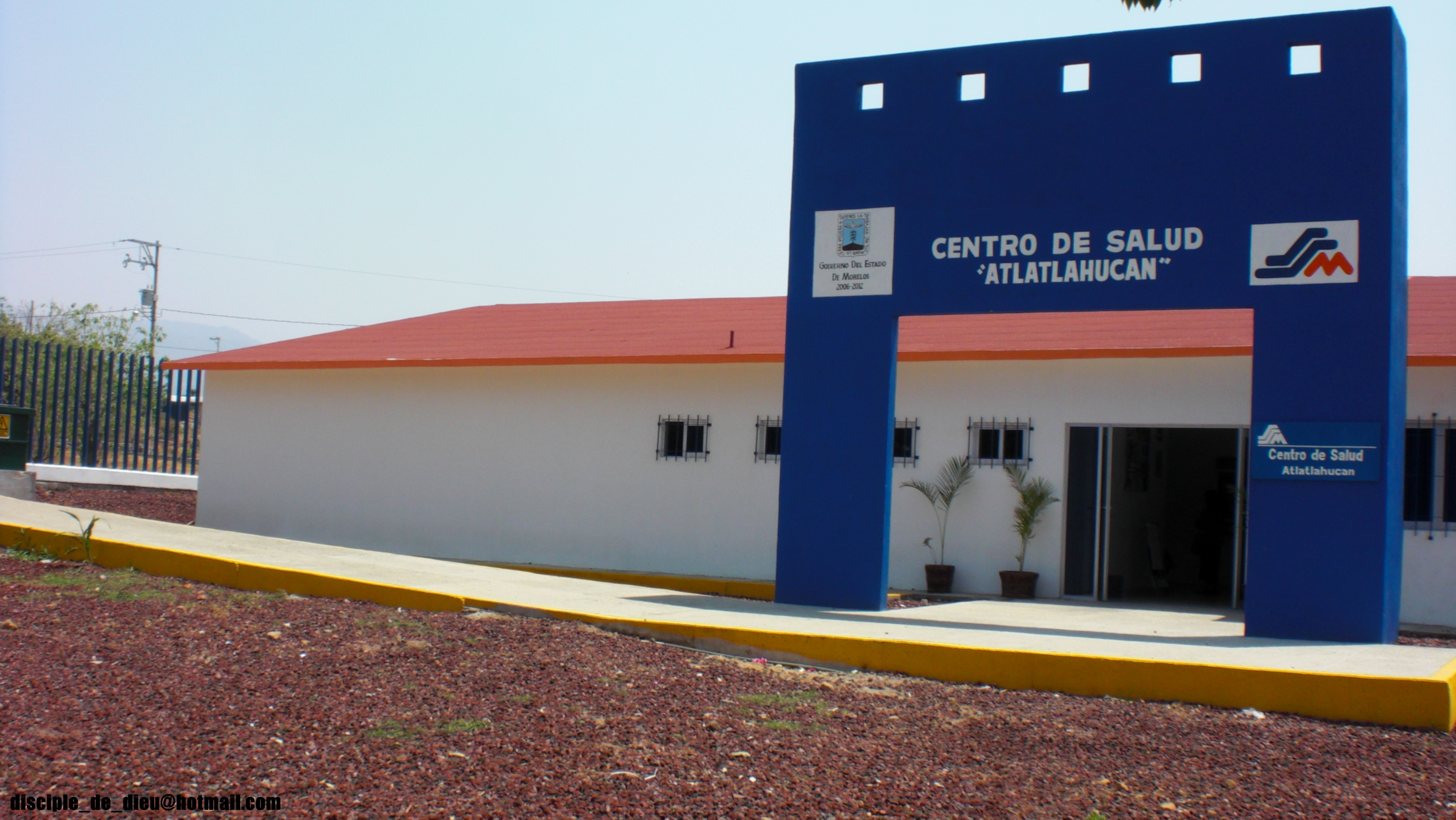 Atlatlahucan